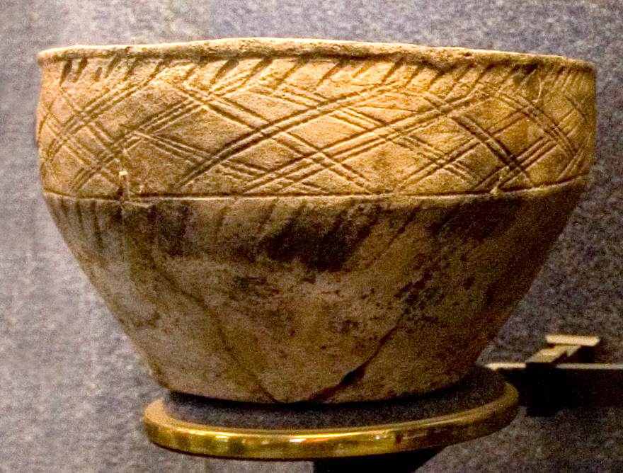 Objects found during excavations